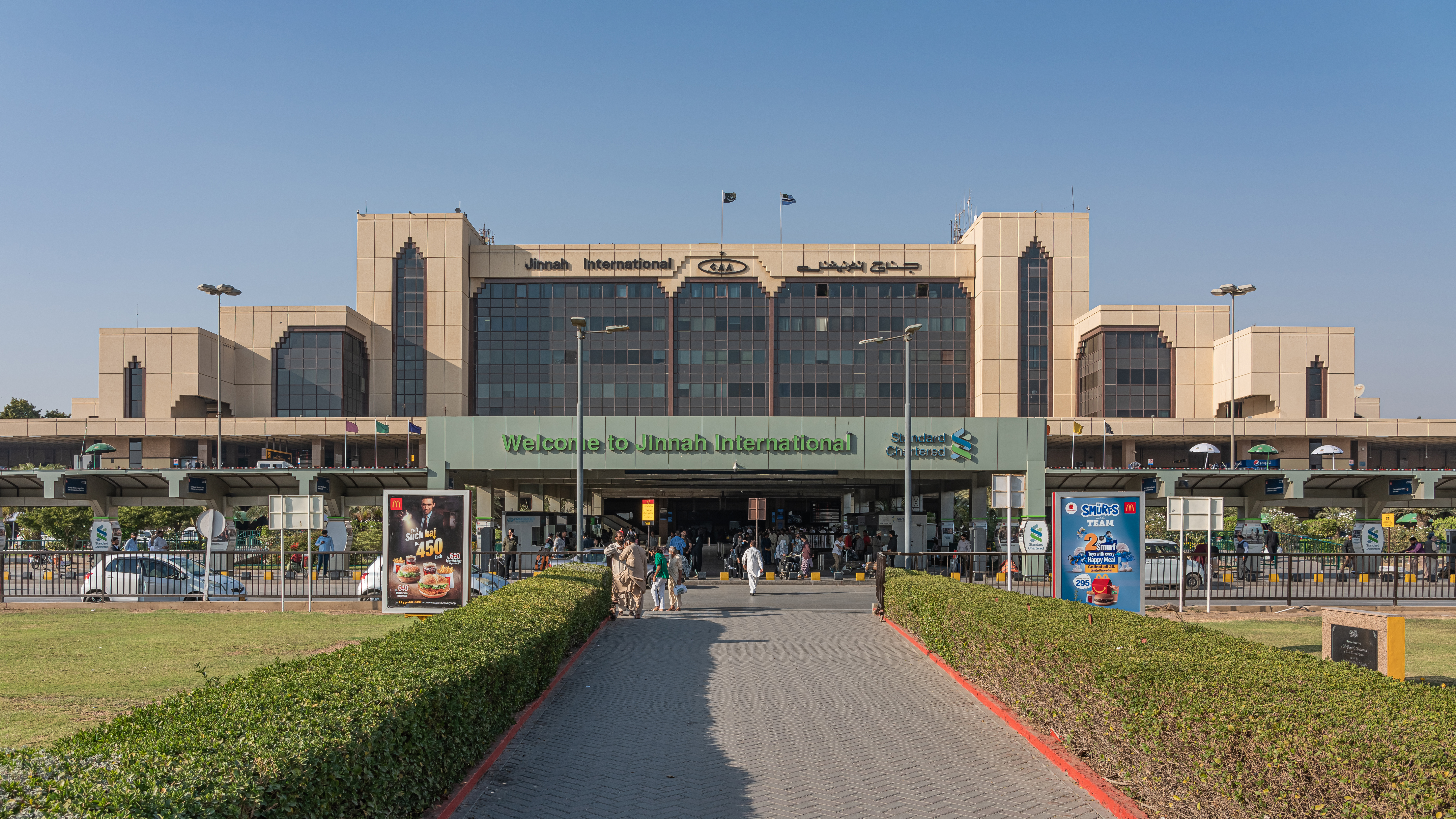 Terminal of the Jinnah Int. Airport in Karachi, Pakistan